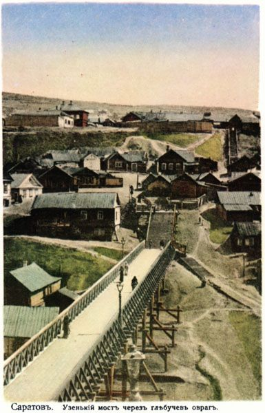 A narrow bridge through Glebuchev ravine in Saratov which connected the greater part of Bolshaya Sergievskaya street (now Chernyshevskogo street) with its smaller part on the Sokovaya mountain